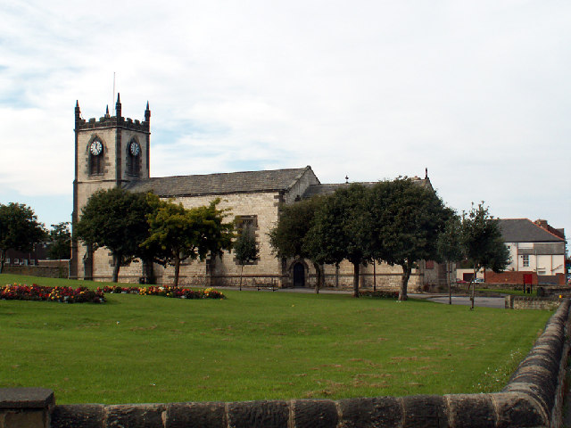 The Parish Of St John the Evangelist, Seaham, County Durham, seen from the south